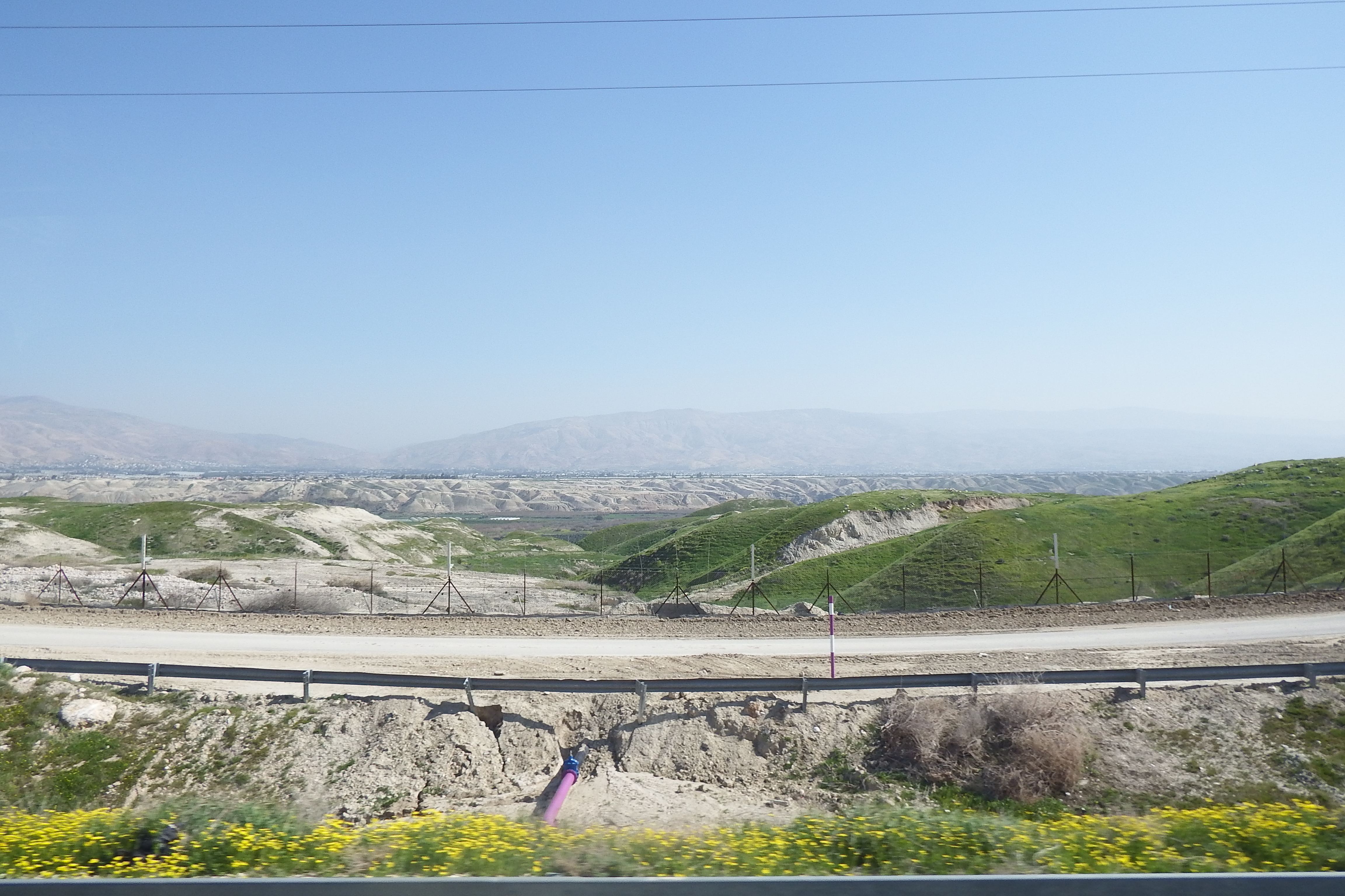 The boundary between Israel and Jordan at the Jordan River Valley